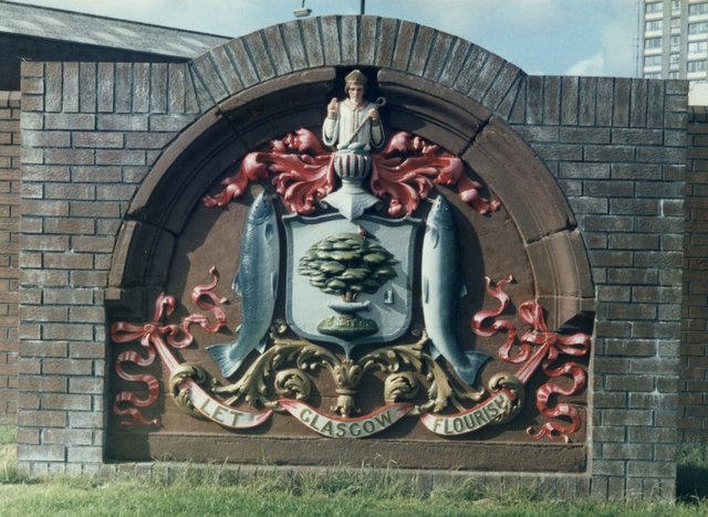 Glasgow Coat of Arms, Port Dundas Road, Glasgow